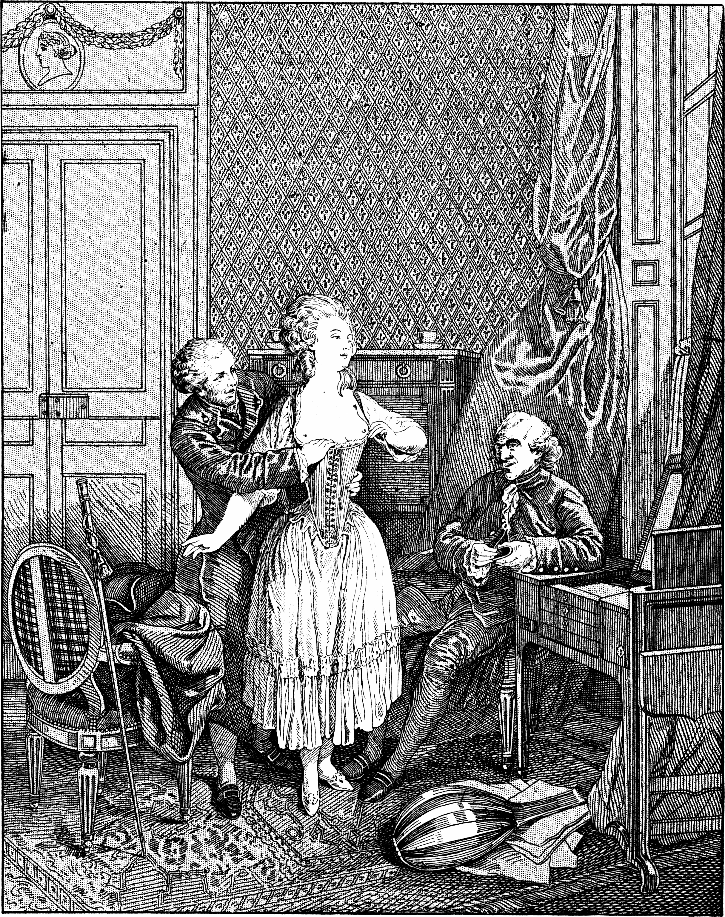 Test of a pair of stays.